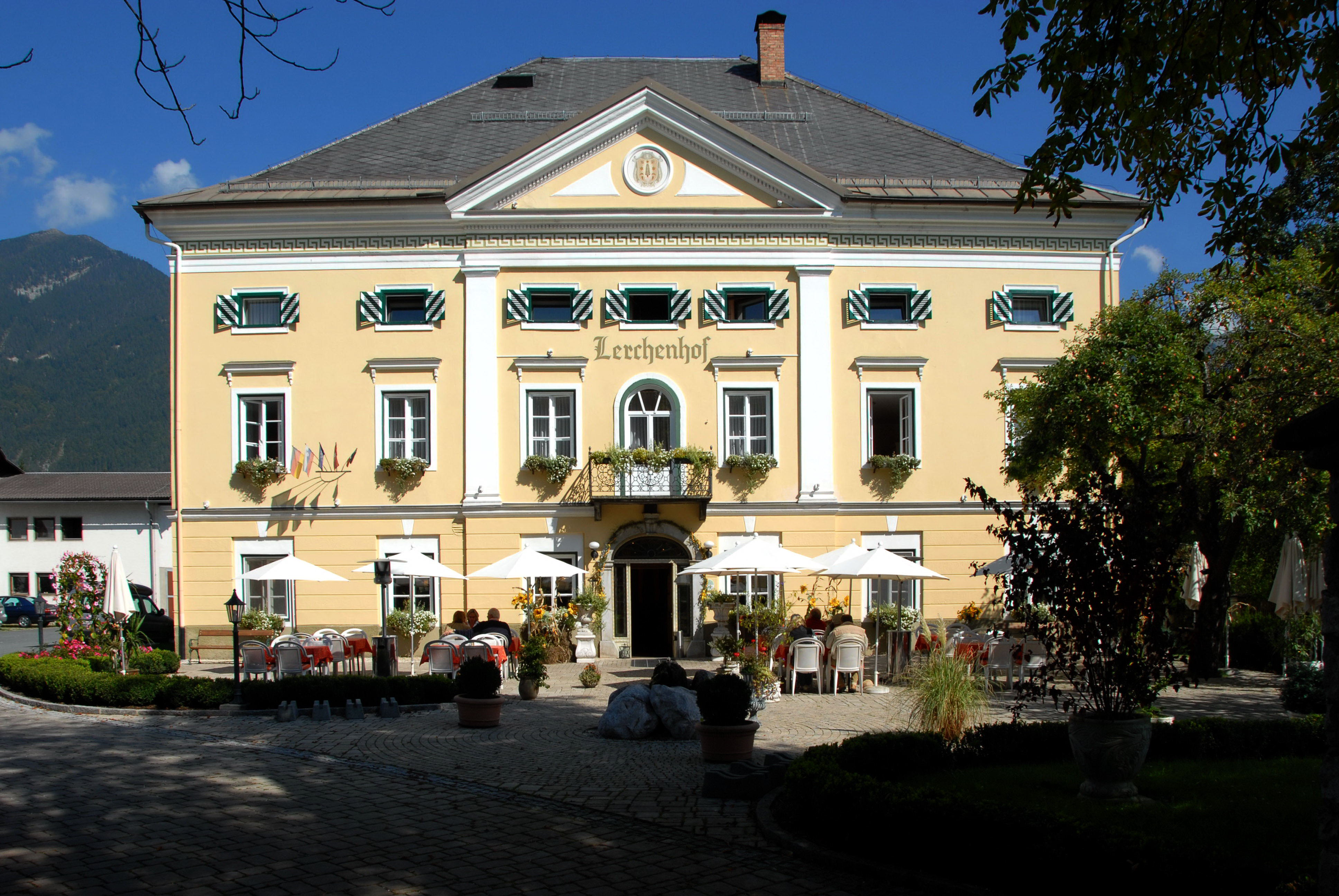 Manor Lerchenhof, designed by architect Domenico Venchiarutti, built from 1848 till 1851, Untermoeschach #8, municipality Hermagor-Pressegger See, district Hermagor, Carinthia, Austria, EU